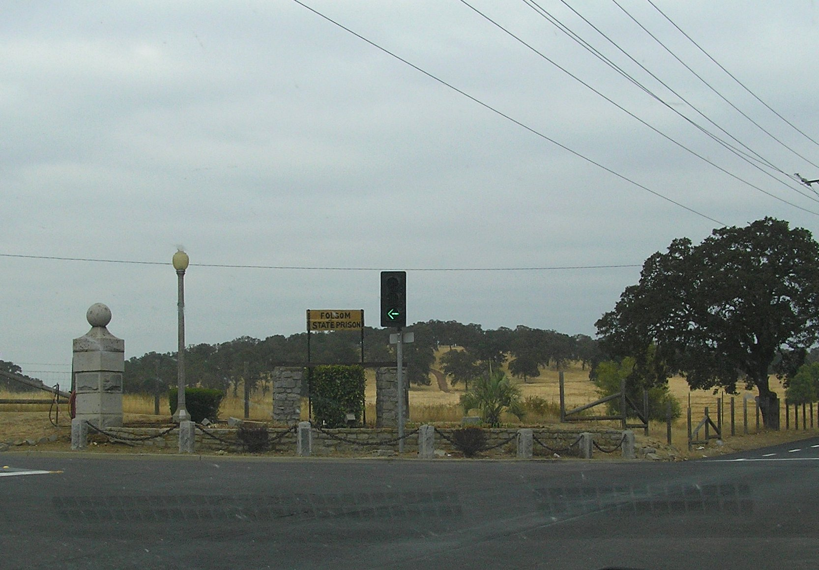 Folsom prison